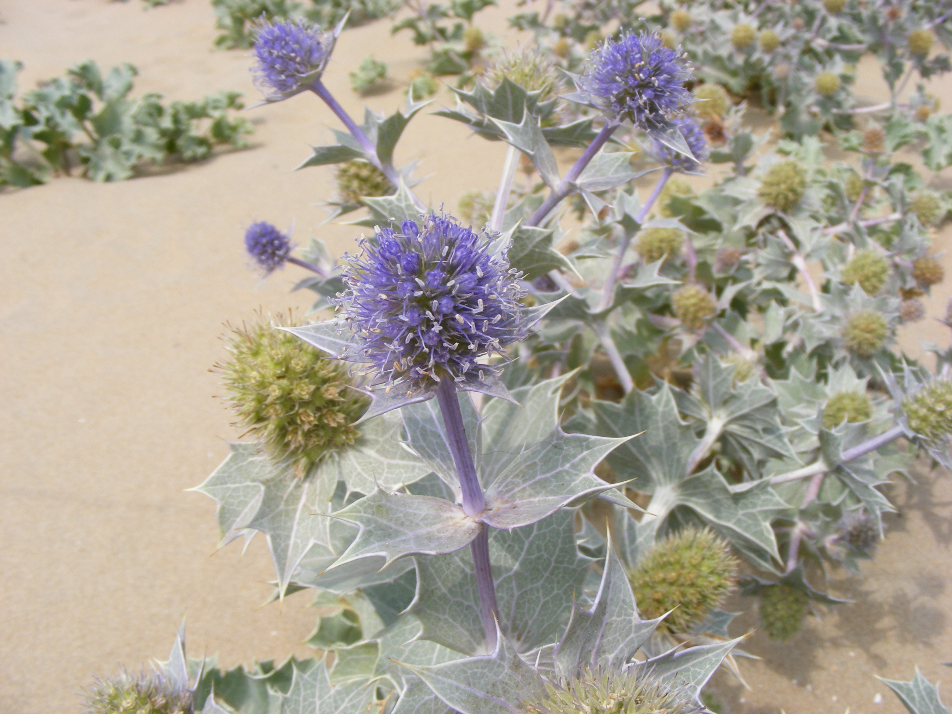 This photo shows Eryngium maritimum